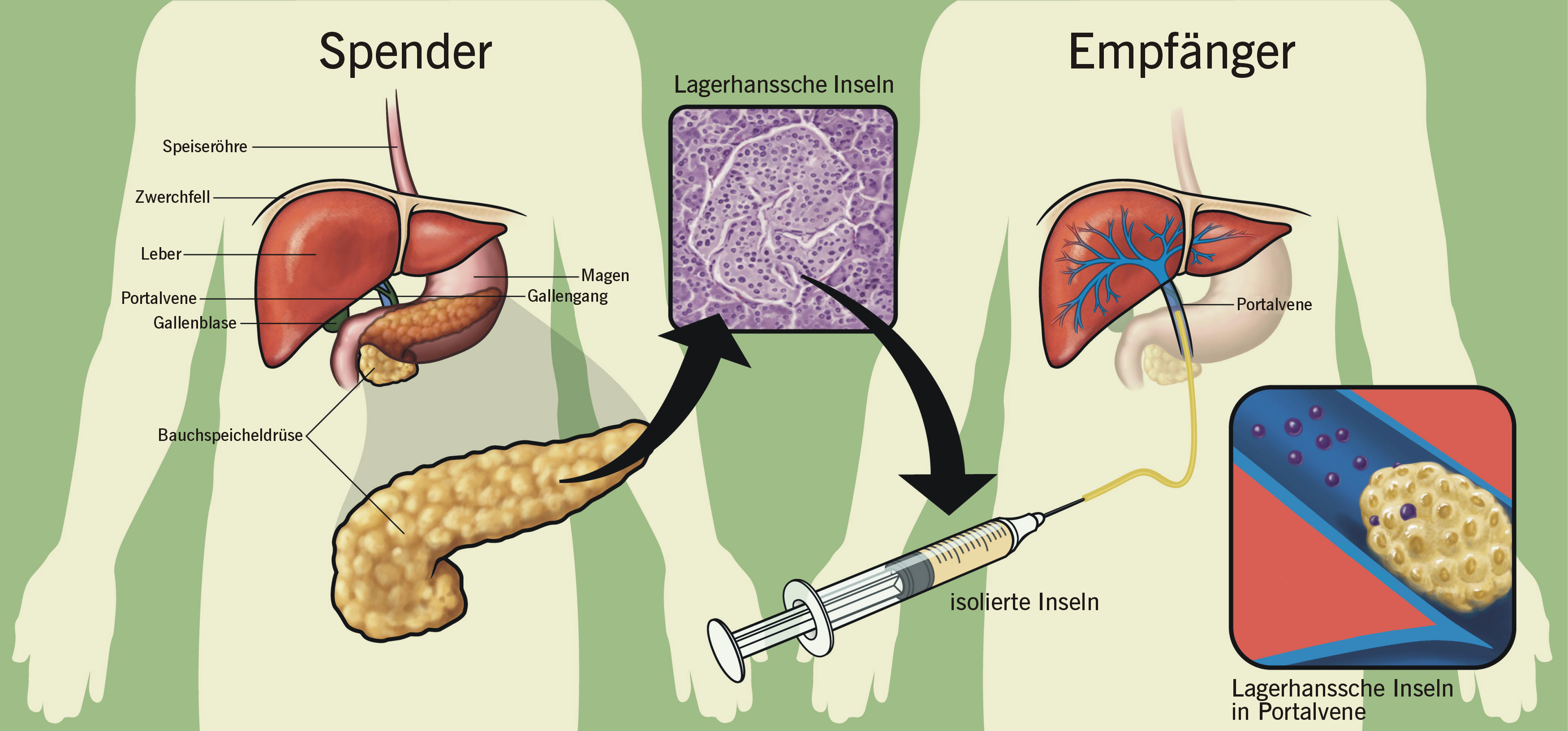 The process of clinical islet transplantation for the treatment of diabetes mellitus